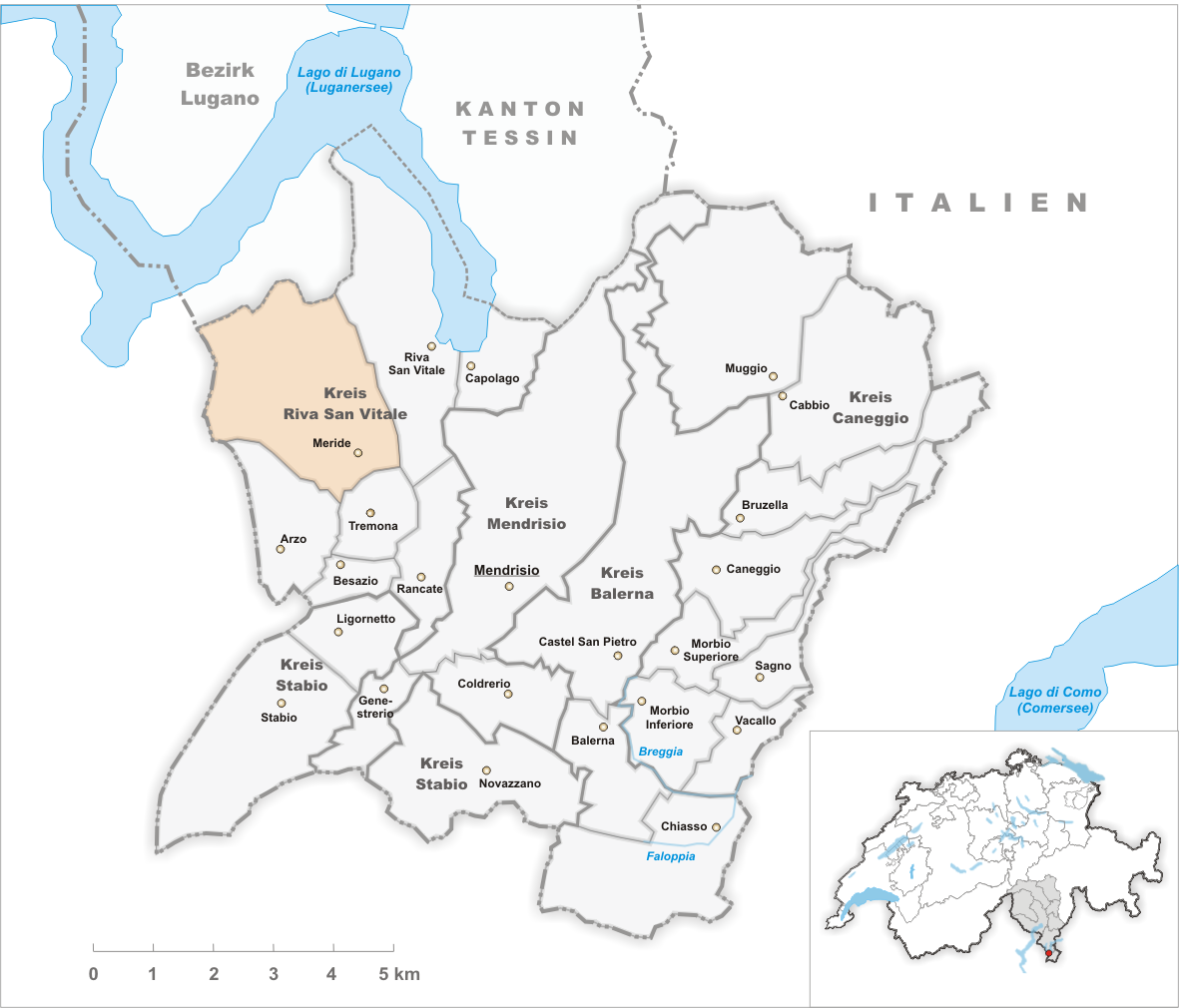 Municipality Meride